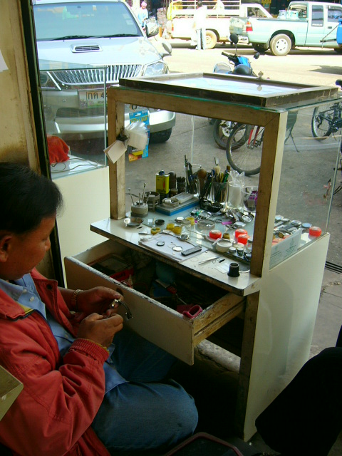 Watch repairer in Thailand (2007).